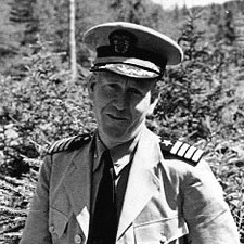 Captain Lyman K. Swenson while ashore at Fox Harbor, Newfoundland.